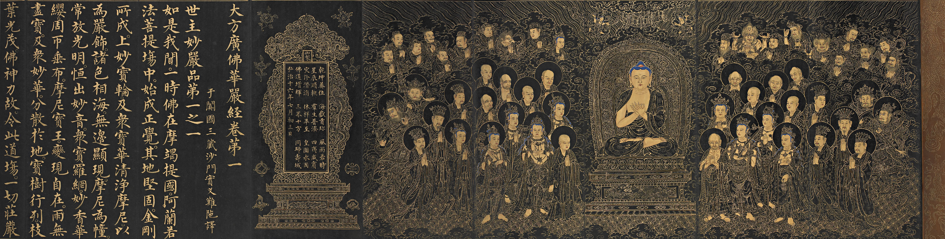 Illustration from Huayan sutra. 1503, National Palace Museum, Taipei